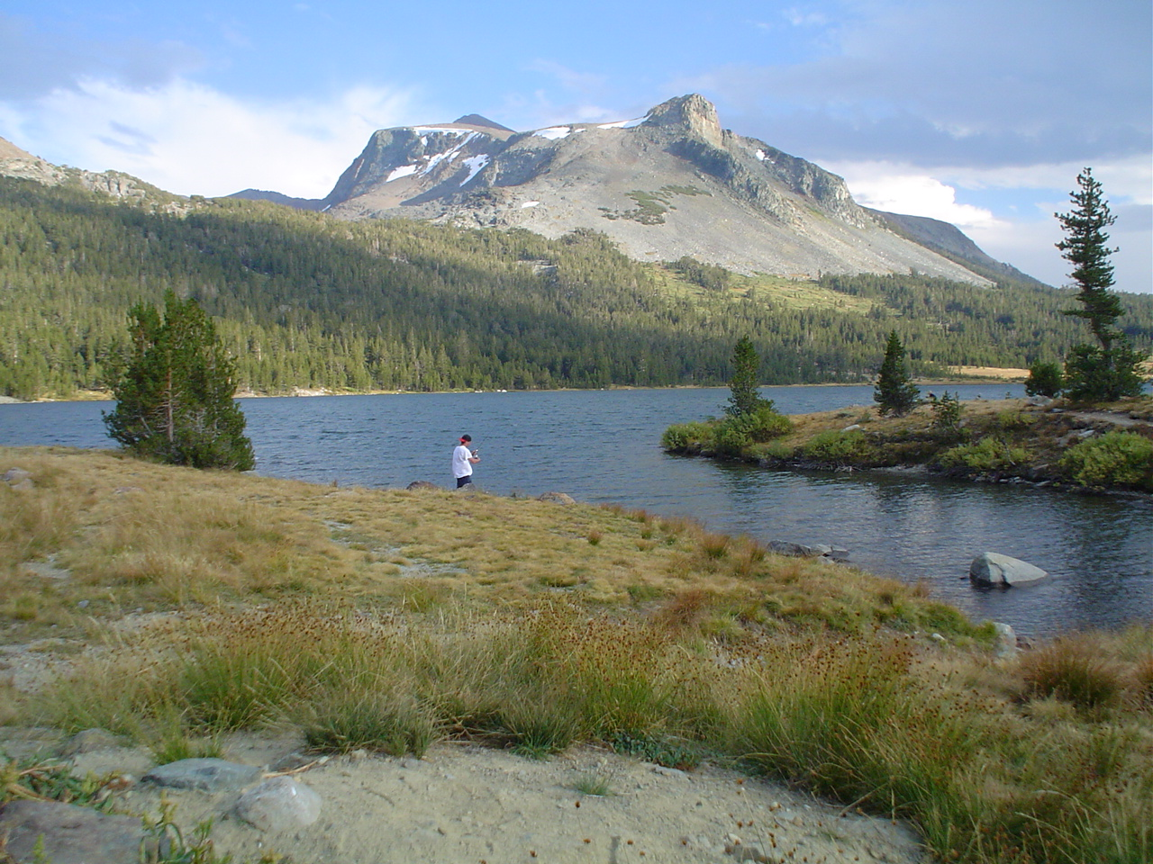 Photo of fisherman at Tioga Lake, California